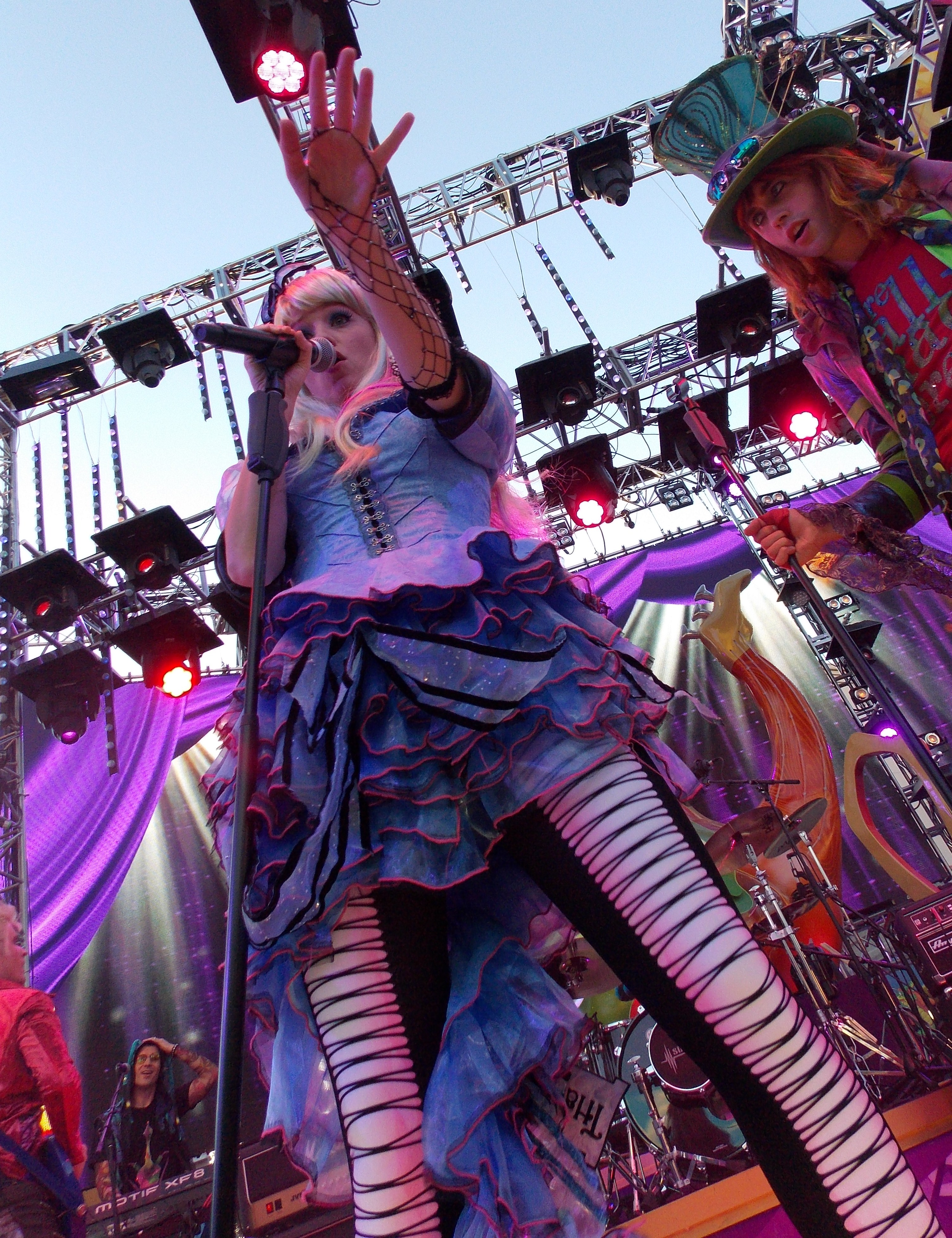 Disney's California Adventure performing group Mad T Party. Alice at microphone.